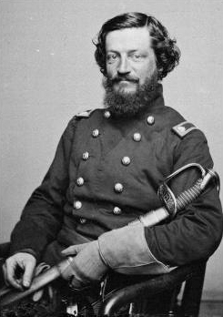 Thomas Leiper Kane, an American attorney, abolitionist, and military officer who was influential in the western migration of the Latter-day Saint movement and served as a Union Army colonel and general of volunteers in the American Civil War. He received a brevet promotion to major general for gallantry at the Battle of Gettysburg.